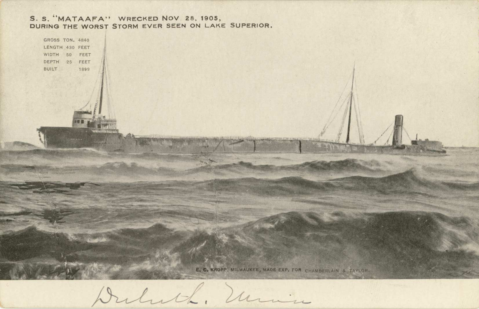 A photo postcard of the Great Lakes freighter Mataafa lying wrecked at the entrance to Duluth harbor after the storm of 28 November 1905.